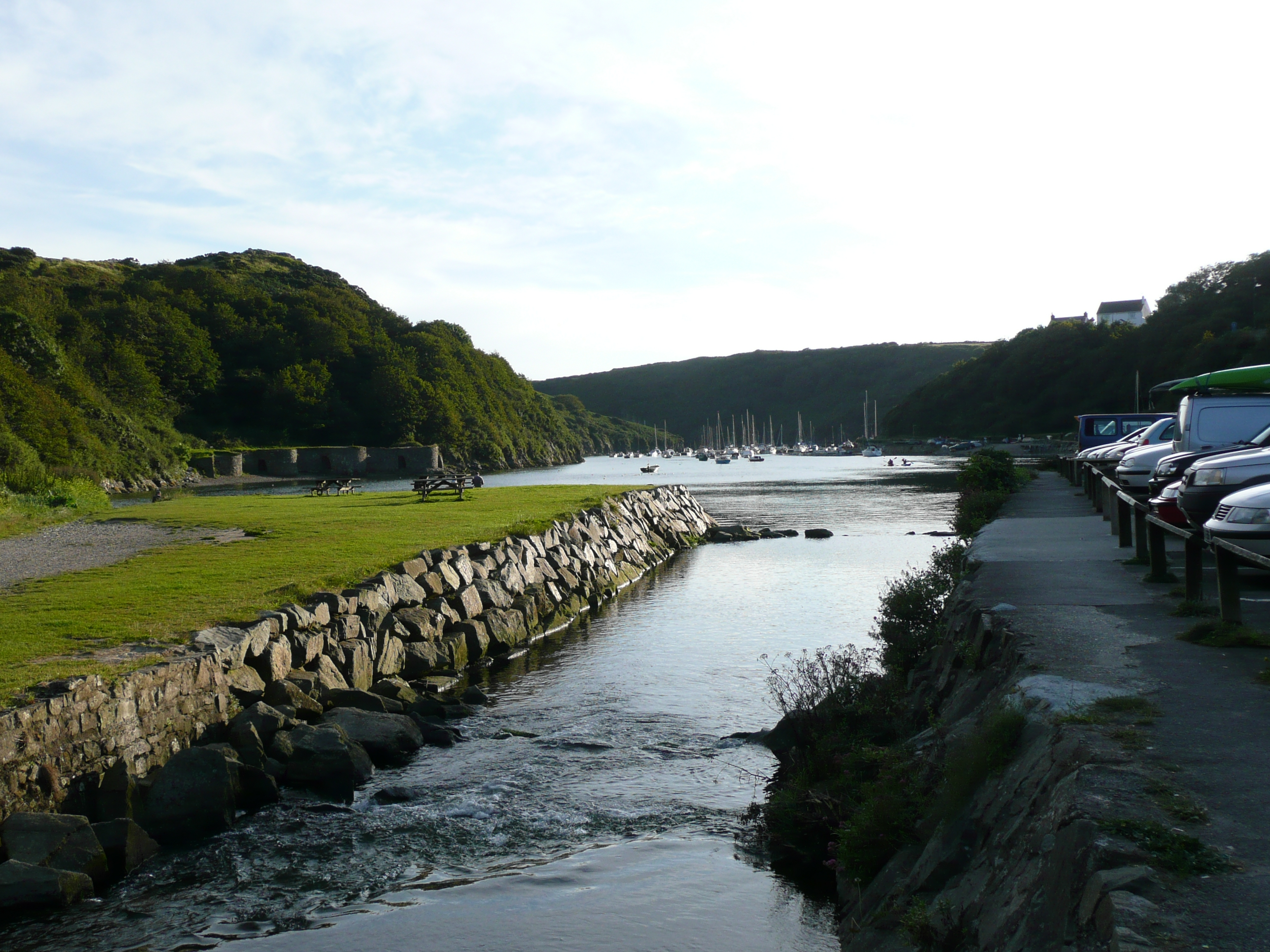 Solva Harbour in Pembrokeshire Wales